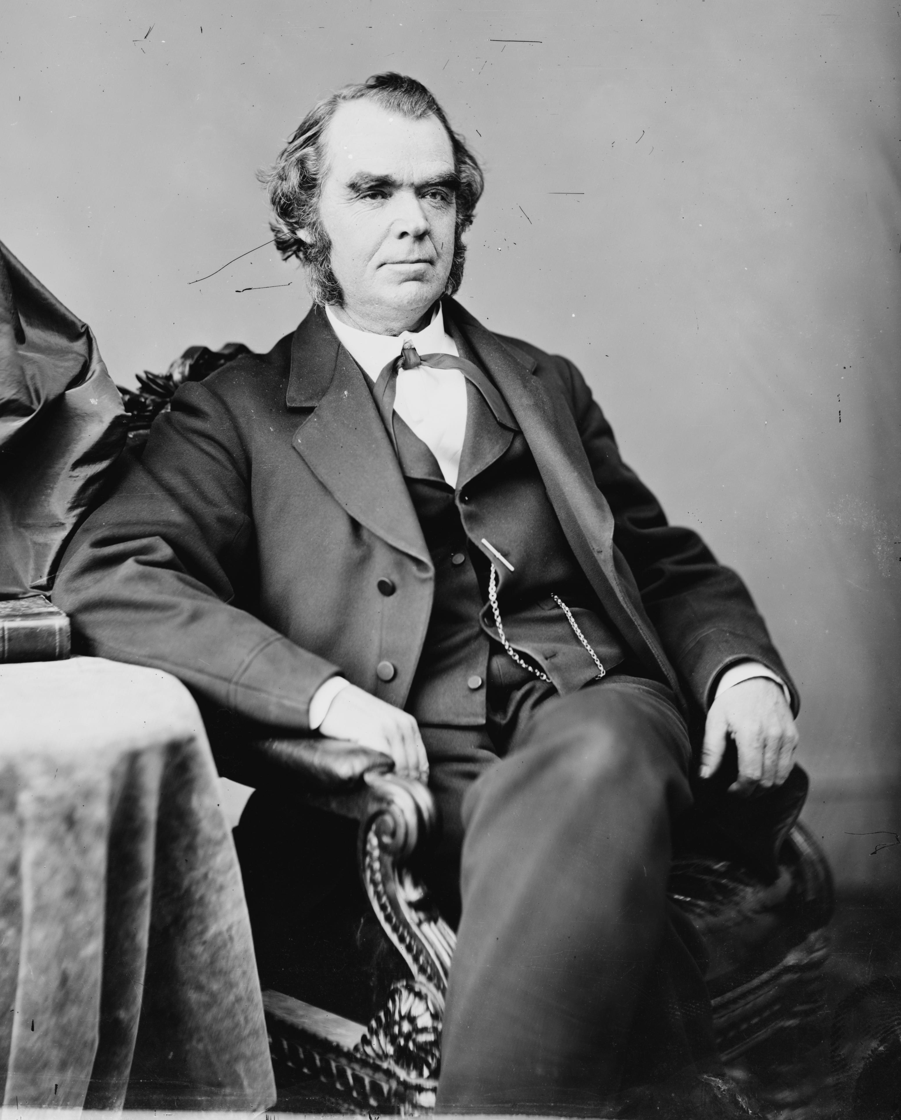 Eliakim Hastings Moore (1812-1900) (not the same as E. H. Moore). Library of Congress description: "Hon. Eliakim Hastings Moore of Ohio"